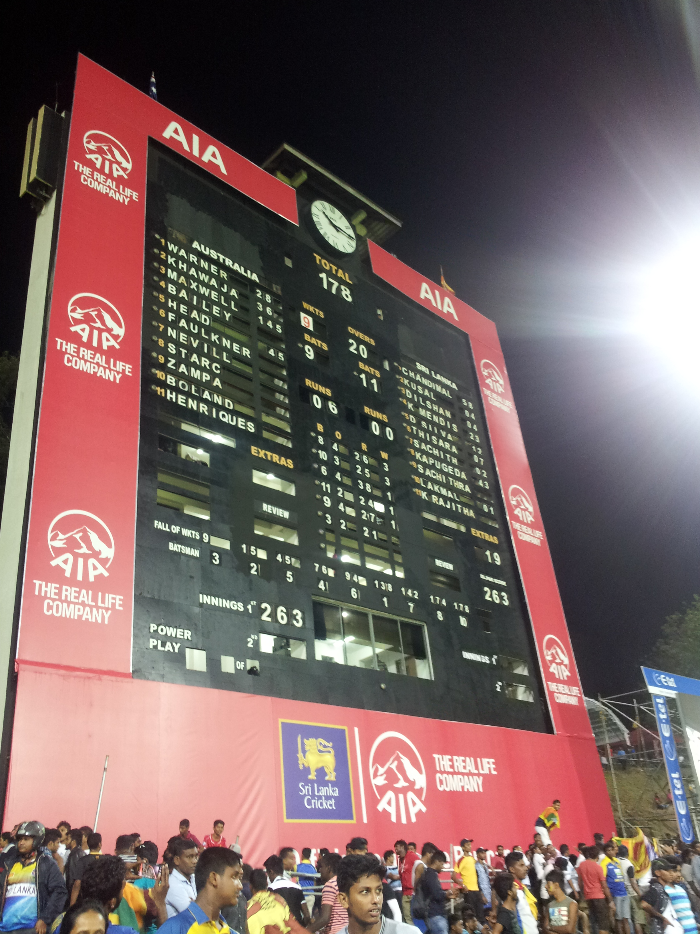 T20I World Record Team Total scoreboard, by Australia against Sri Lanka on 7 September 2016 at Pallekele Cricket Stadium